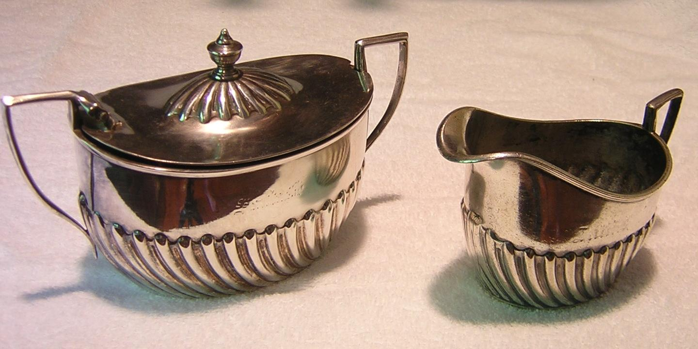 ATSF holloware creamer and lidded sugar bowl possibly made by Harrison & Howson in the 1910s, possibly later, or possibly a reproduction (has Harrison & Howson, Sheffield England stamped on the bottom)